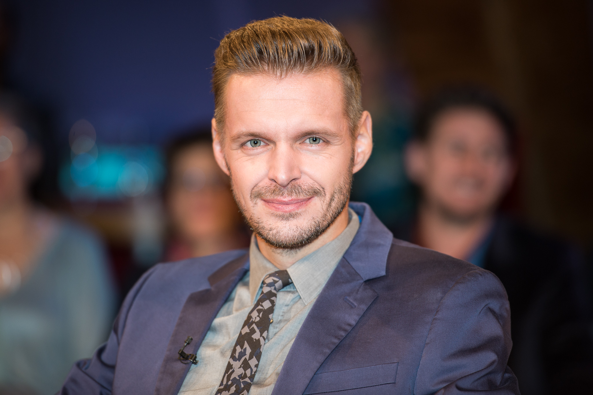 Florian Schroeder,Live on tape,NDR Talk Show